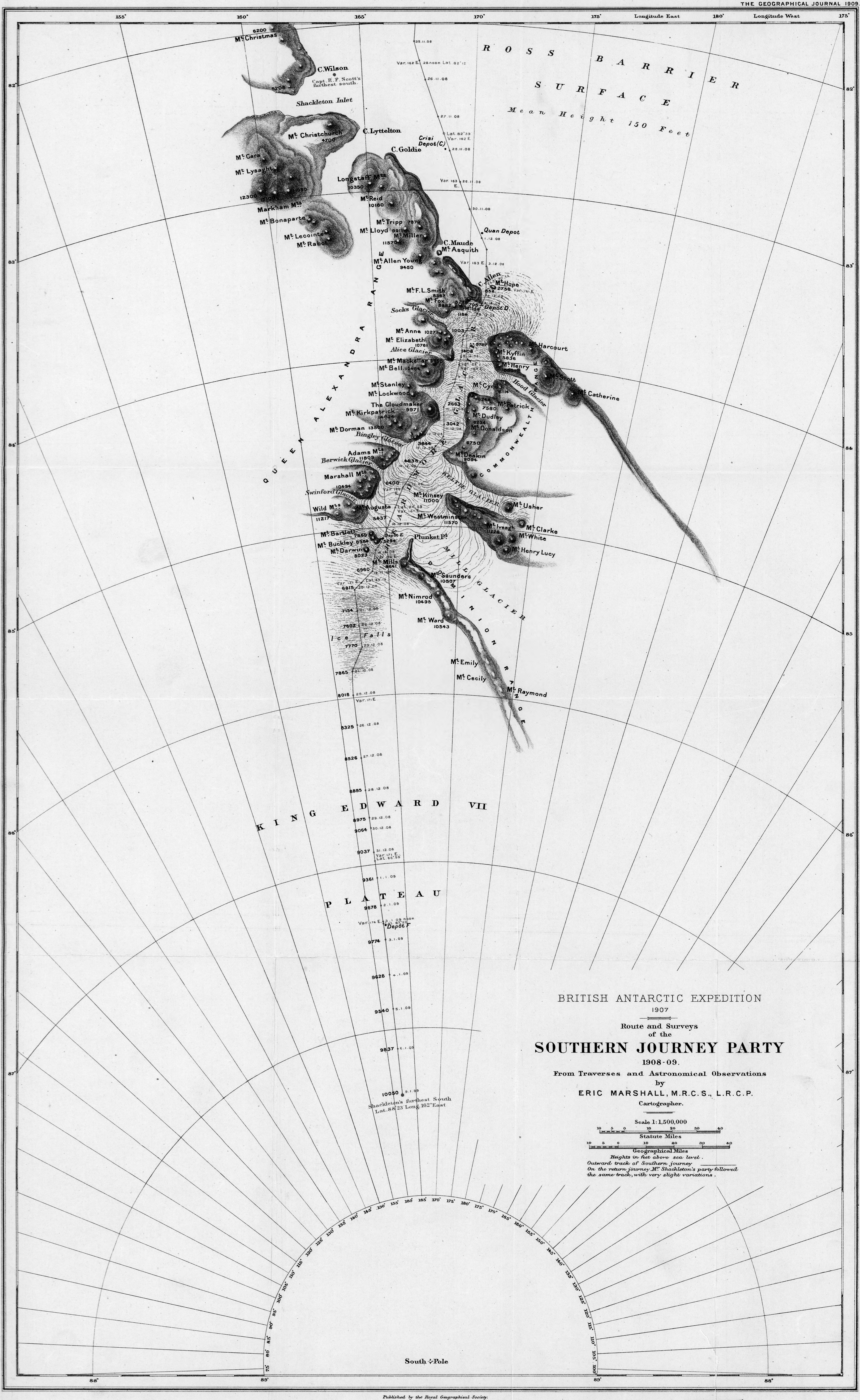 Photographs of the Nimrod Expedition (1907-09) to the Antarctic, led by Ernest Sheckleton